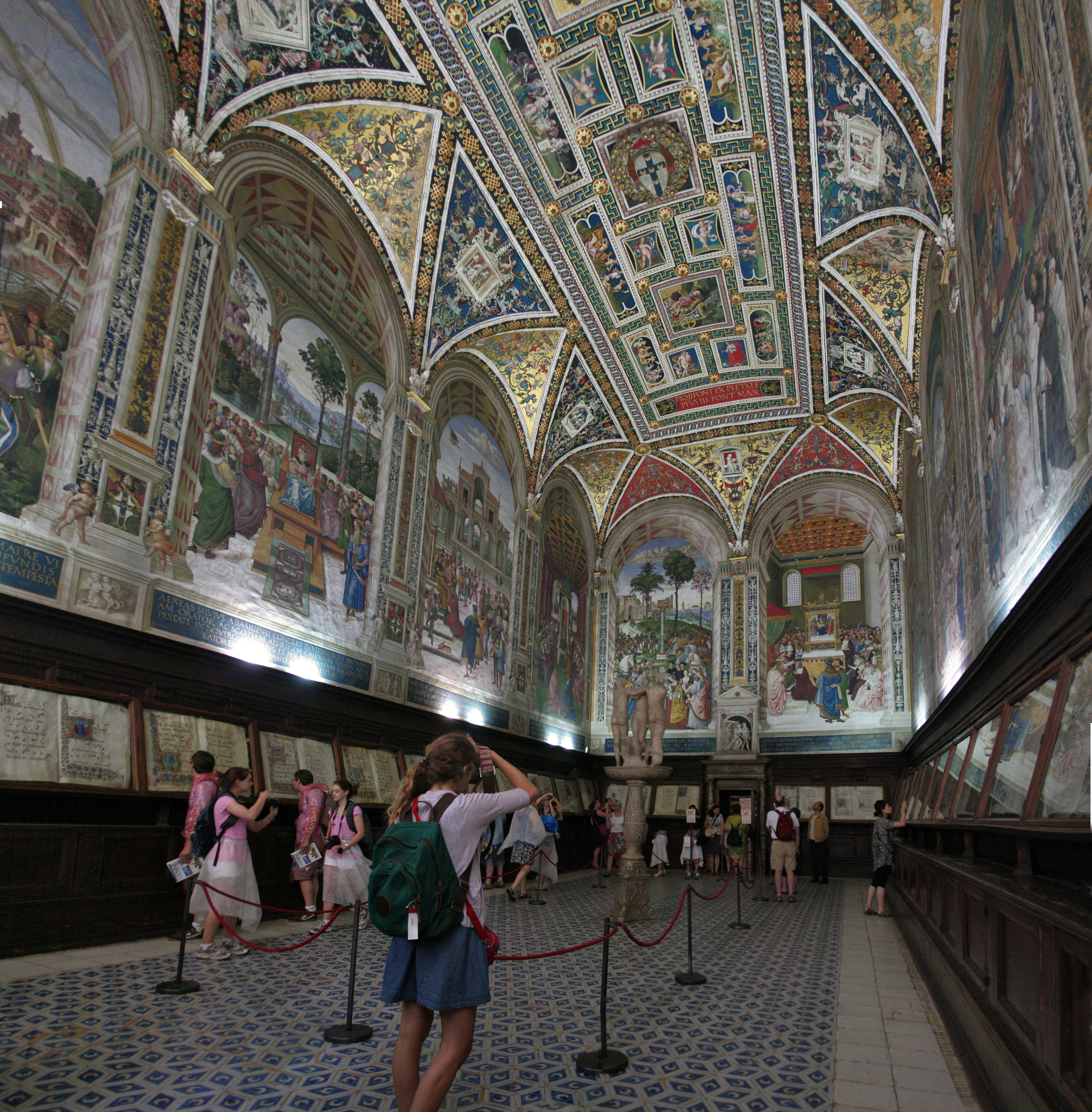 Cathedral of Siena